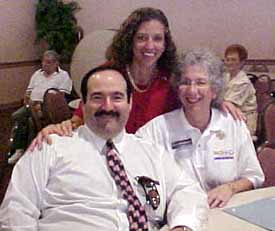 Sue was happy to have a chance to chat with her good friends Senator Steve Geller and Senator Debbie Wasserman-Schultz.